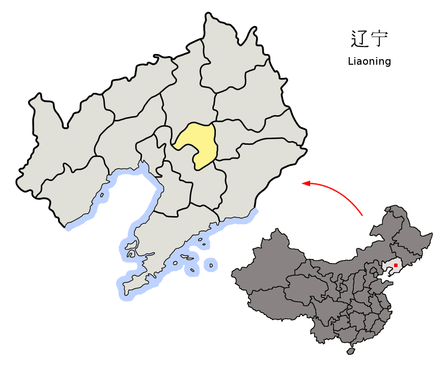 Location of Liaoyang Prefecture (yellow) within Liaoning Province of China Map drawn in november 2007 using various sources, mainly : Liaoning Province administrative regions GIS data: 1:1M, County level, 1990 Liaoning Counties map from